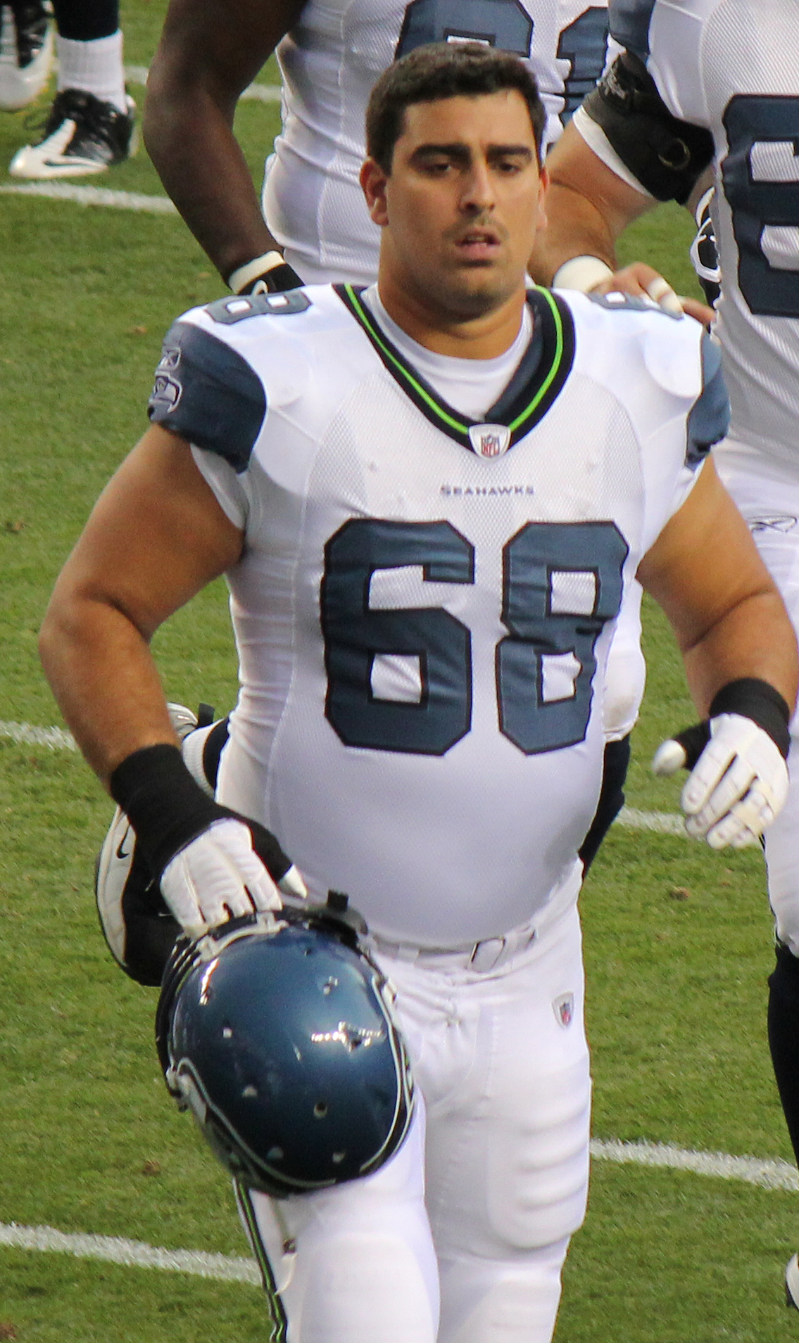 Breno Giacomini, a player on the National Football League.